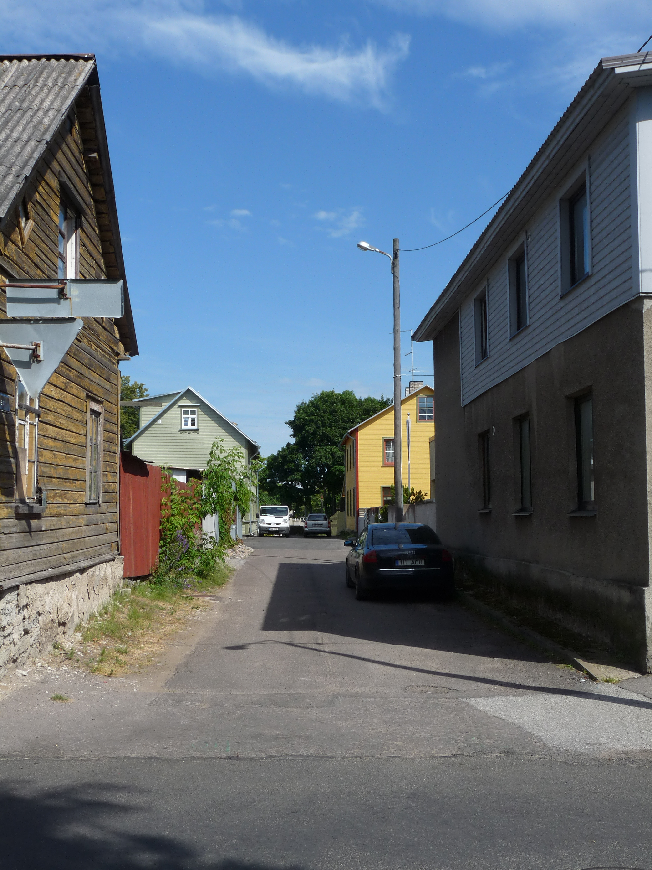 Naeri street in Tallinn, Estonia